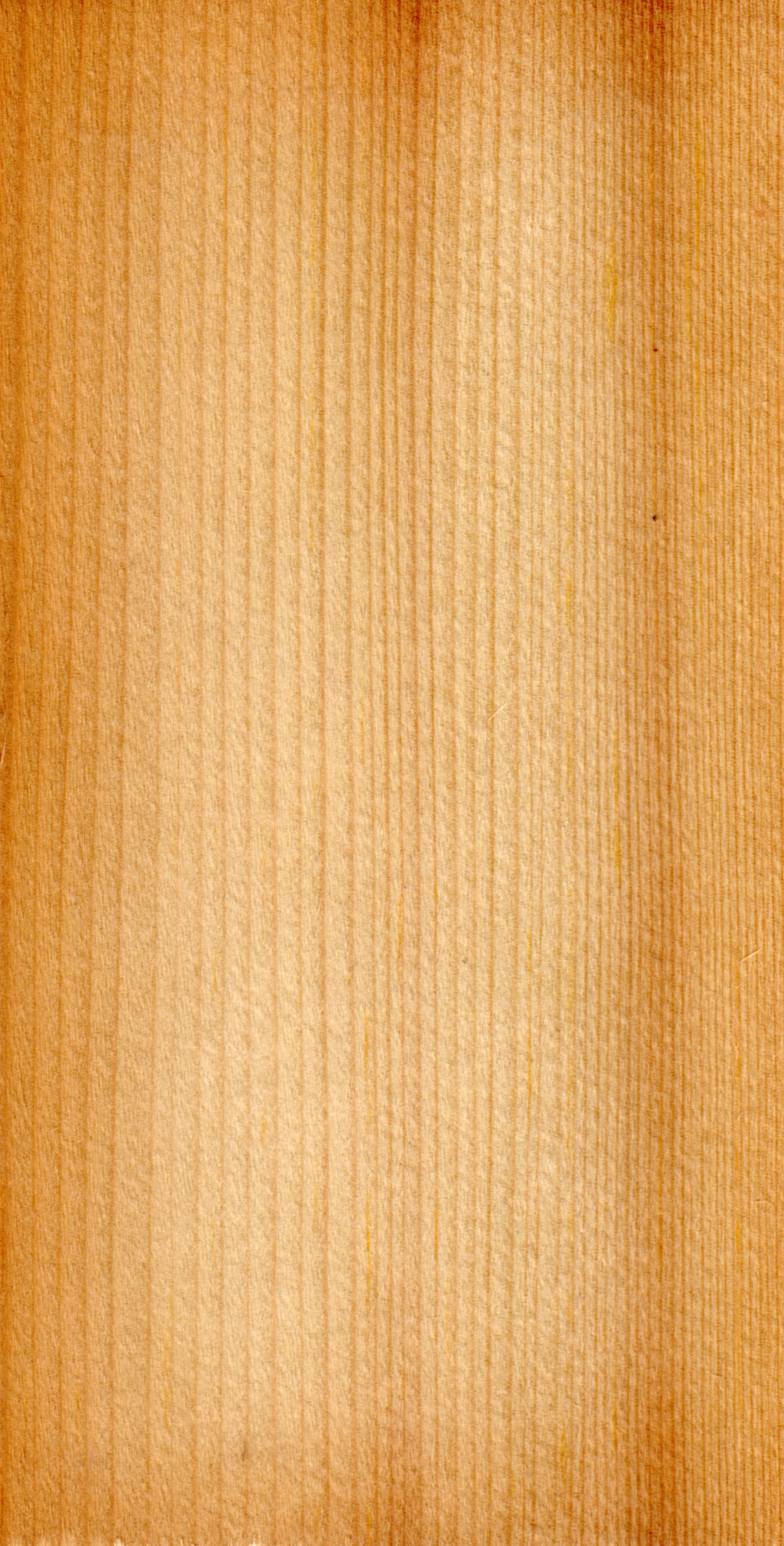 Wood of Picea abies